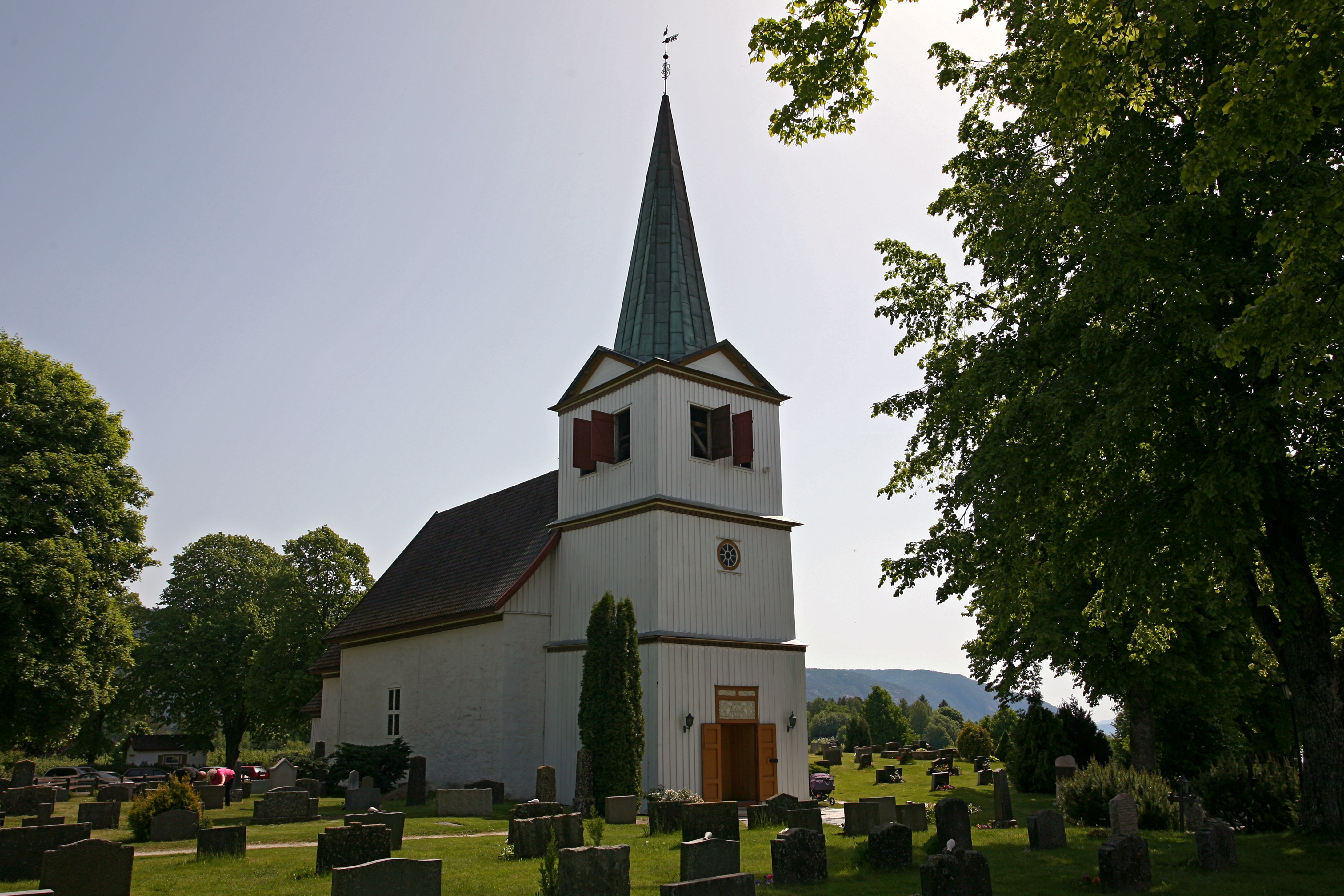 Picture of Nes church in Sauherad (Telemark - Norway)